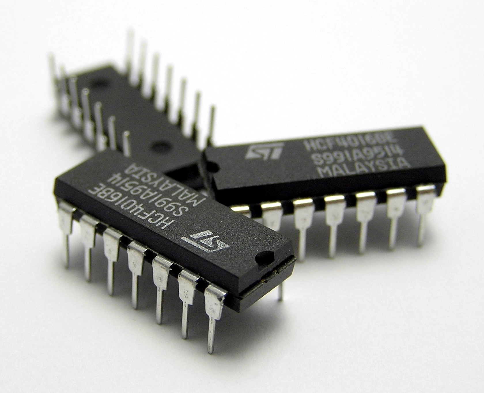 Three 4016 ICs, manufactured by ST Microelectronics.